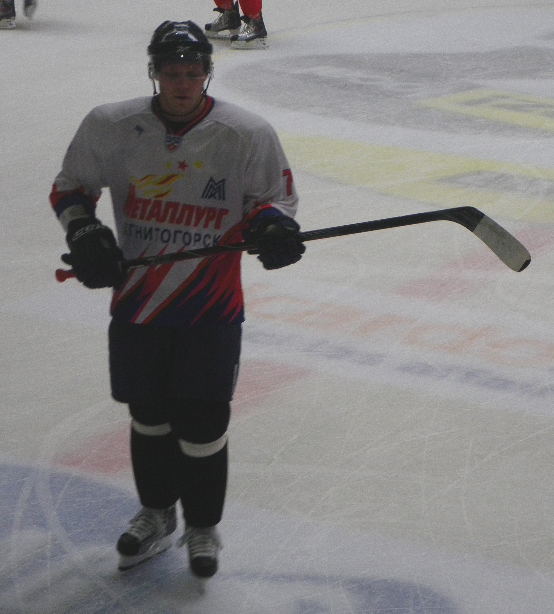 Janne Niskala, finnish ice hockey player with Metallurg Magnitogorsk